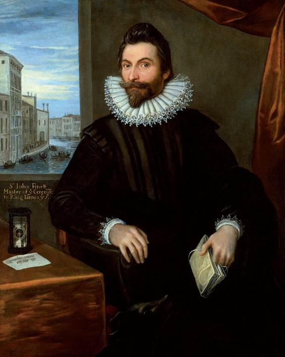 Portrait of John Finet, later kt. and Master of Ceremonies at the Court of Charles I, King of England and Scotland; with a window view of the Grand Canal, Venice. Oil on canvas. Painted in Venice, late 1610 or early 1611. Formerly at Upton Hall, Northampton.